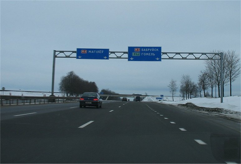 European highway E271 i.e. national highway M4 and M5 seen on way out from Minsk, before junction of M4 continues to the east (Mogilev) and E271/M5 to southeast (Gomel). Location about 11-12 km southeast from Minsk Ring road M9 (in Minsk rajon, Minsk oblast, Belarus).